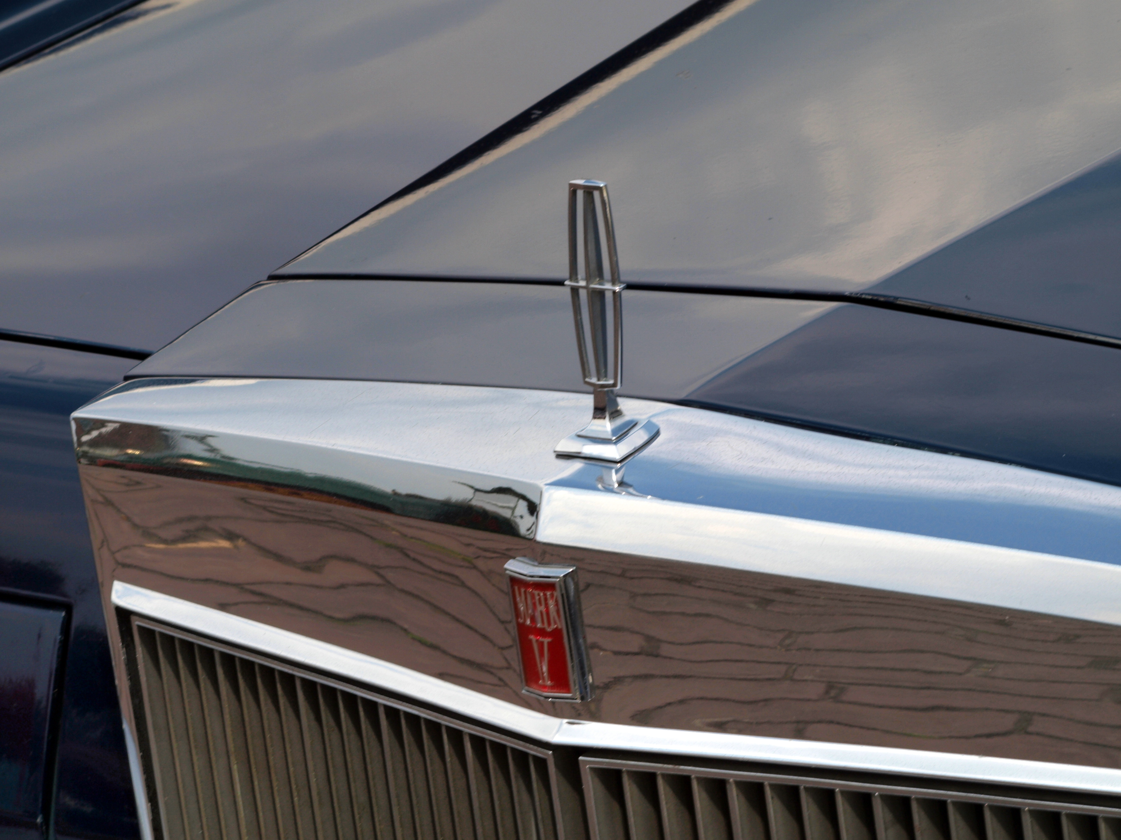 Photographed at the 2010 Autotron Classic car meeting, Rosmalen, The Netherlands. OLYMPUS DIGITAL CAMERA